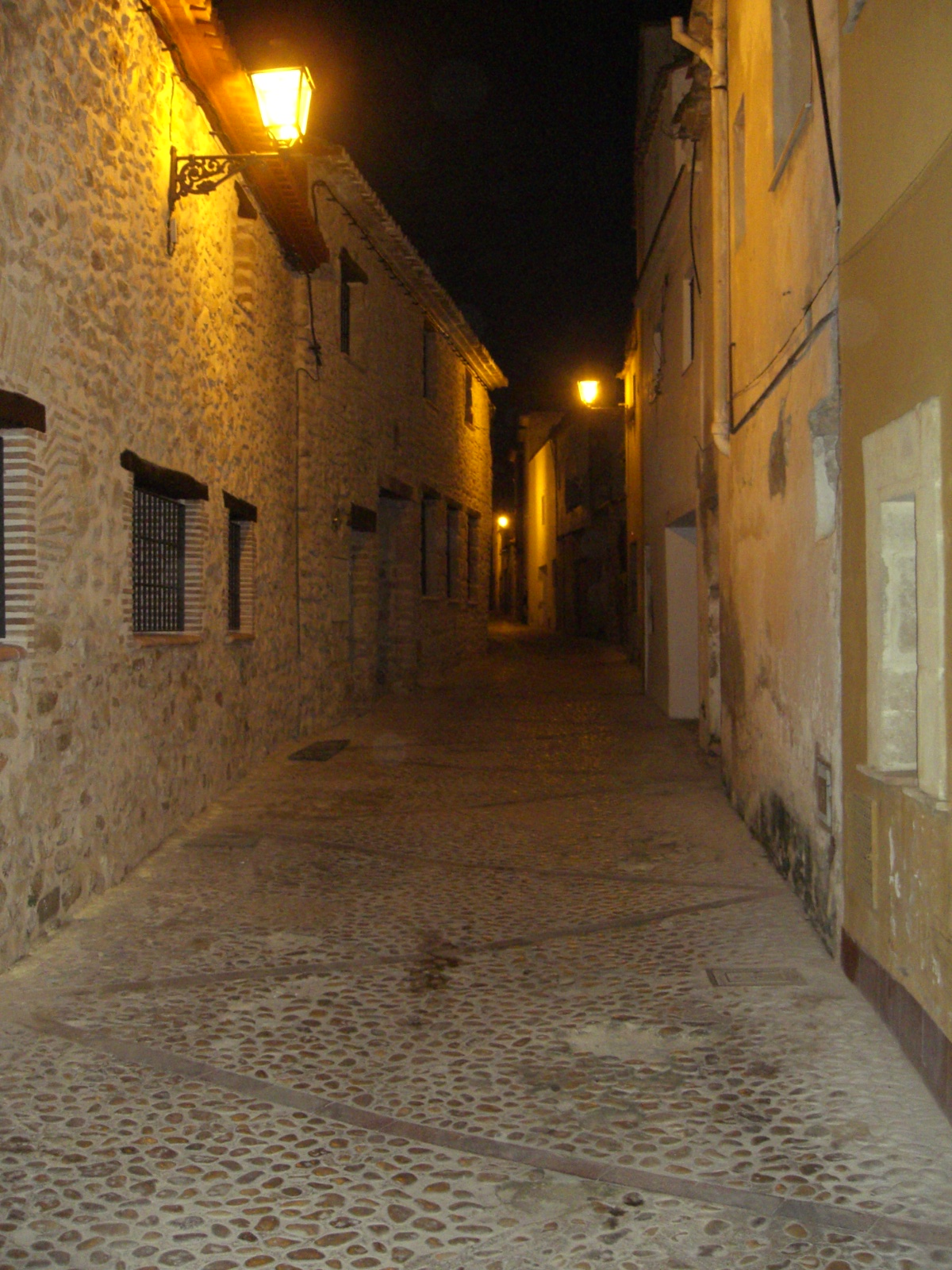 Denia's street at night